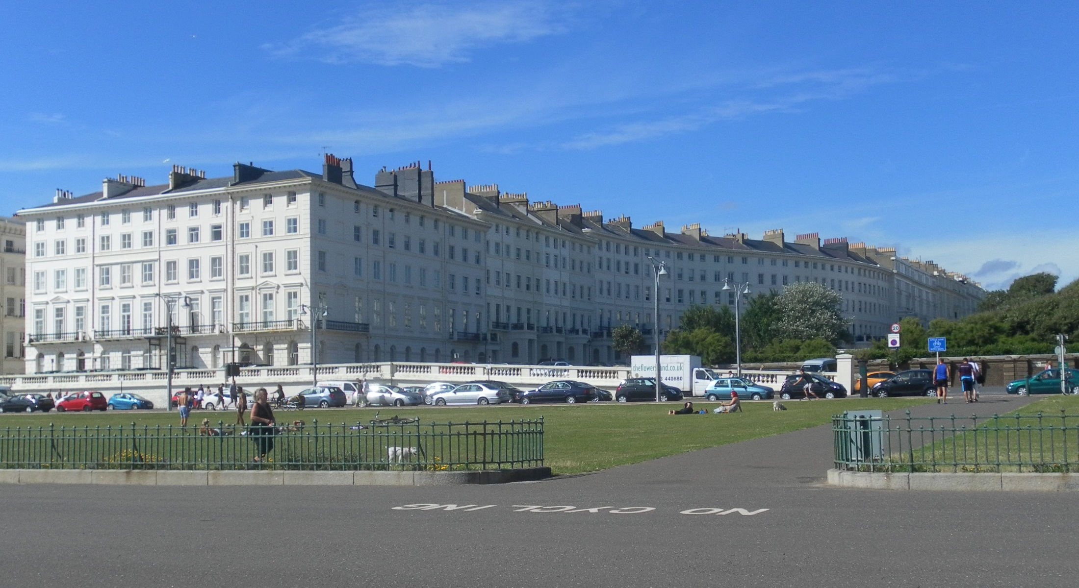 20–38 Adelaide Crescent, Hove, City of Brighton and Hove, England. These houses form the west side of Adelaide Crescent. Listed at Grade II* by English Heritage (NHLE Code 1187537)